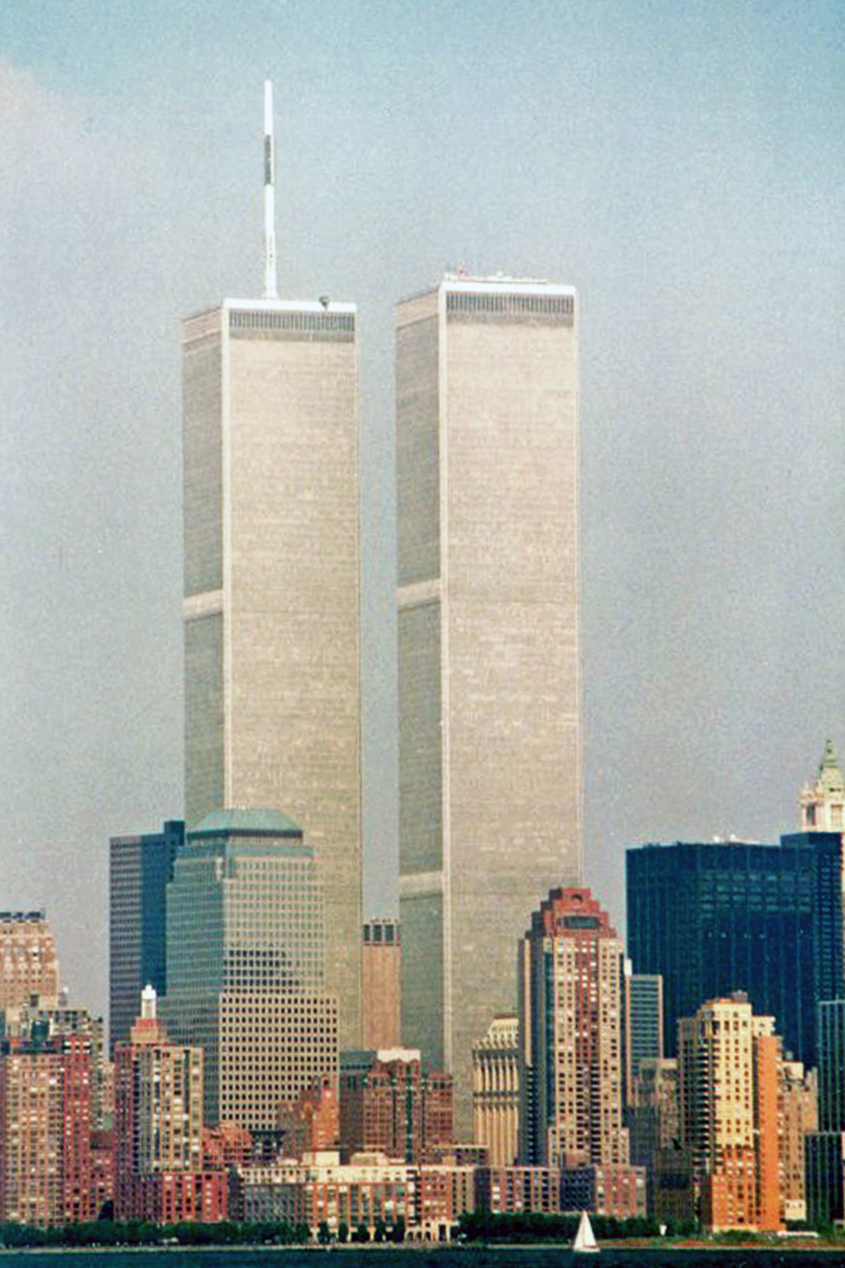 Twin Towers NYC (scanned from print photos)